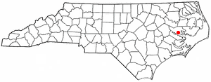 Category:North Carolina Dot Maps